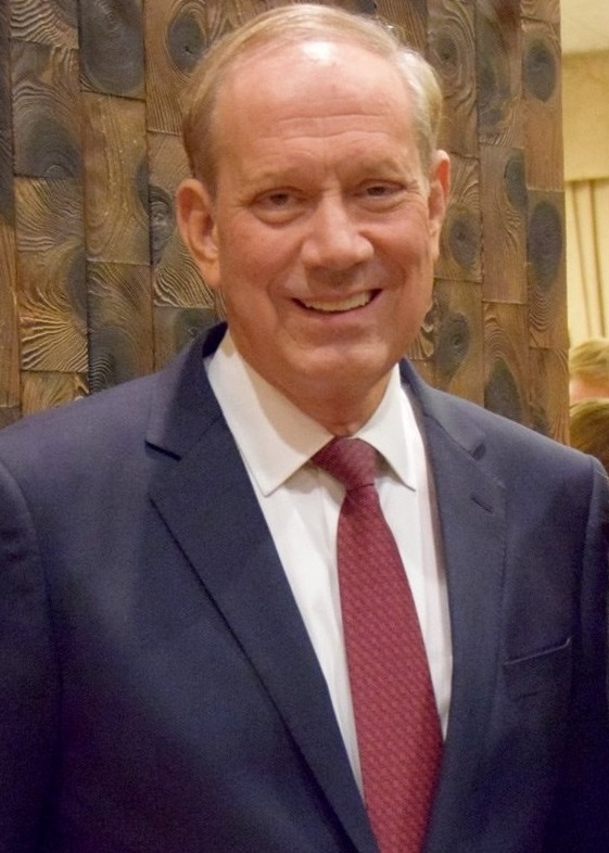 George Pataki at the Embassy of Hungary in Washington DC.